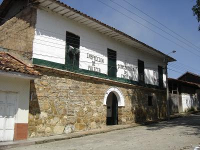 Instalaciones de Piedra donde existe el "Calabozo Antonia Santos" fue allí donde estuvo prisionera María Antonia Santos Plata. Actualmente funciona la estación de Policía del Corregimiento